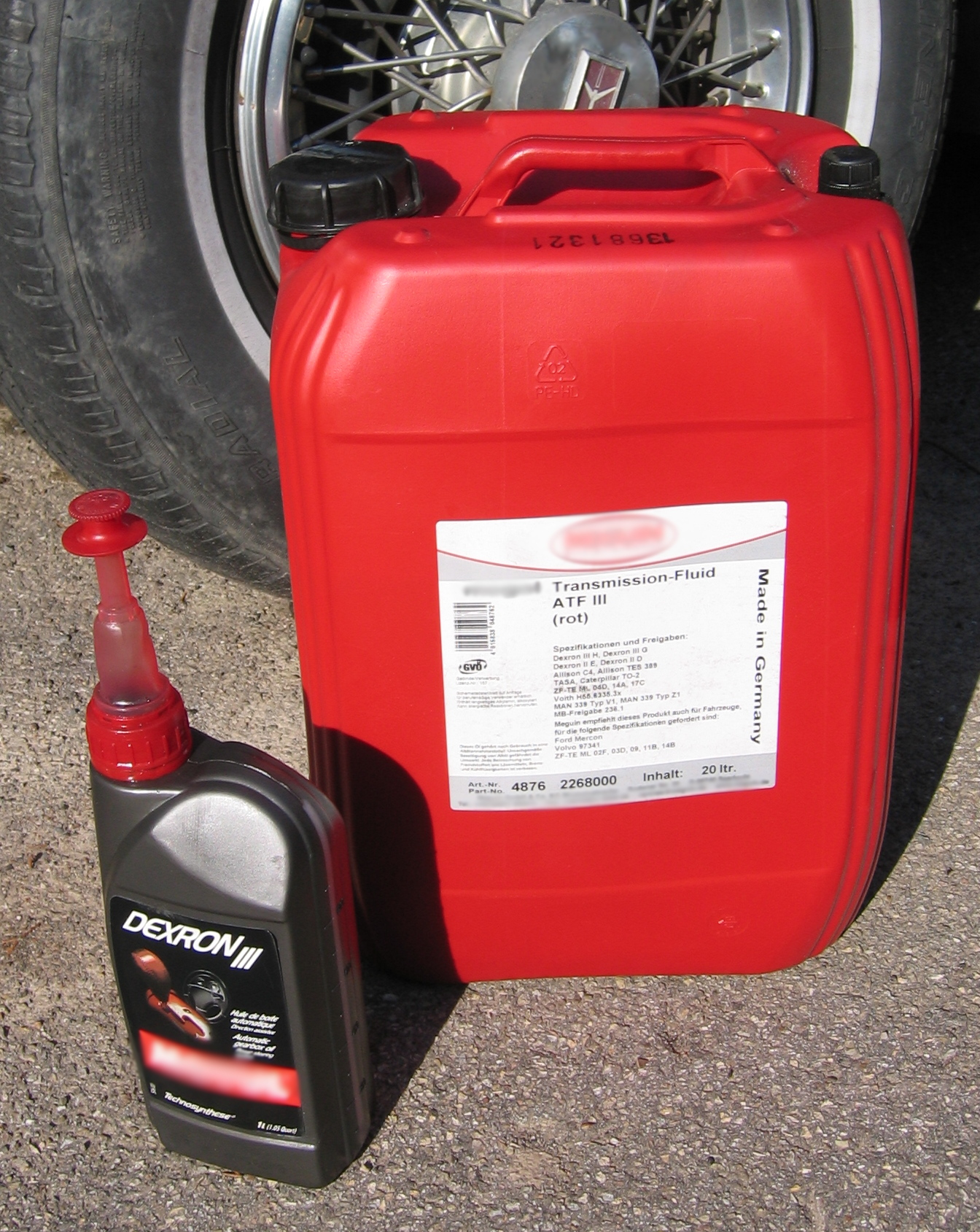 Automatic transmission fluid (ATF) in different cans 1l + 20l, with red dye